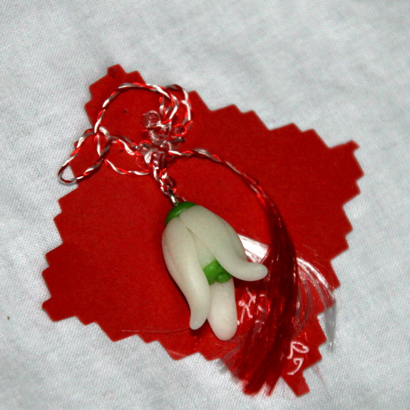 a romanian spring martisor from 2012, with traditional string and snowdrop motive